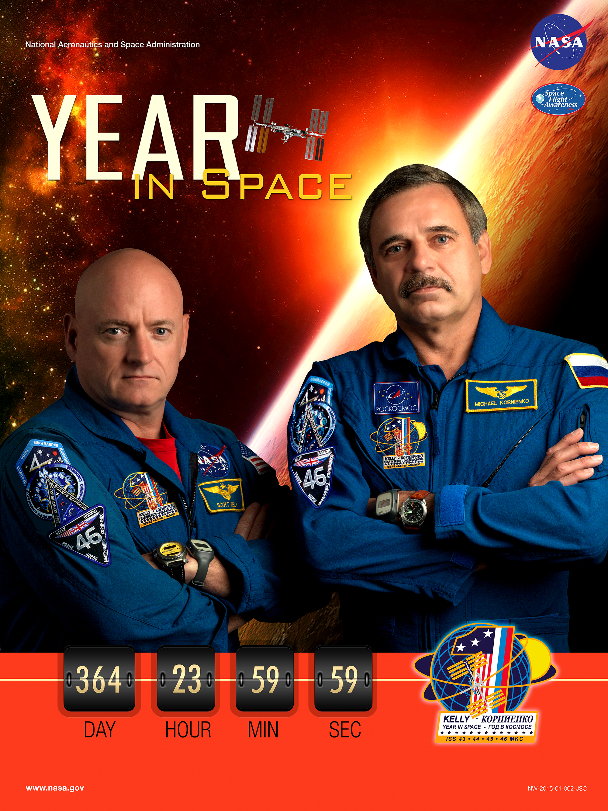 NASA astronaut Scott Kelly (left), Expedition 43/44 flight engineer and Expedition 45/46 commander; and Russian cosmonaut Mikhail Kornienko, Expedition 43-46 flight engineer, in the One-Year Crew Mission commemorative poster.